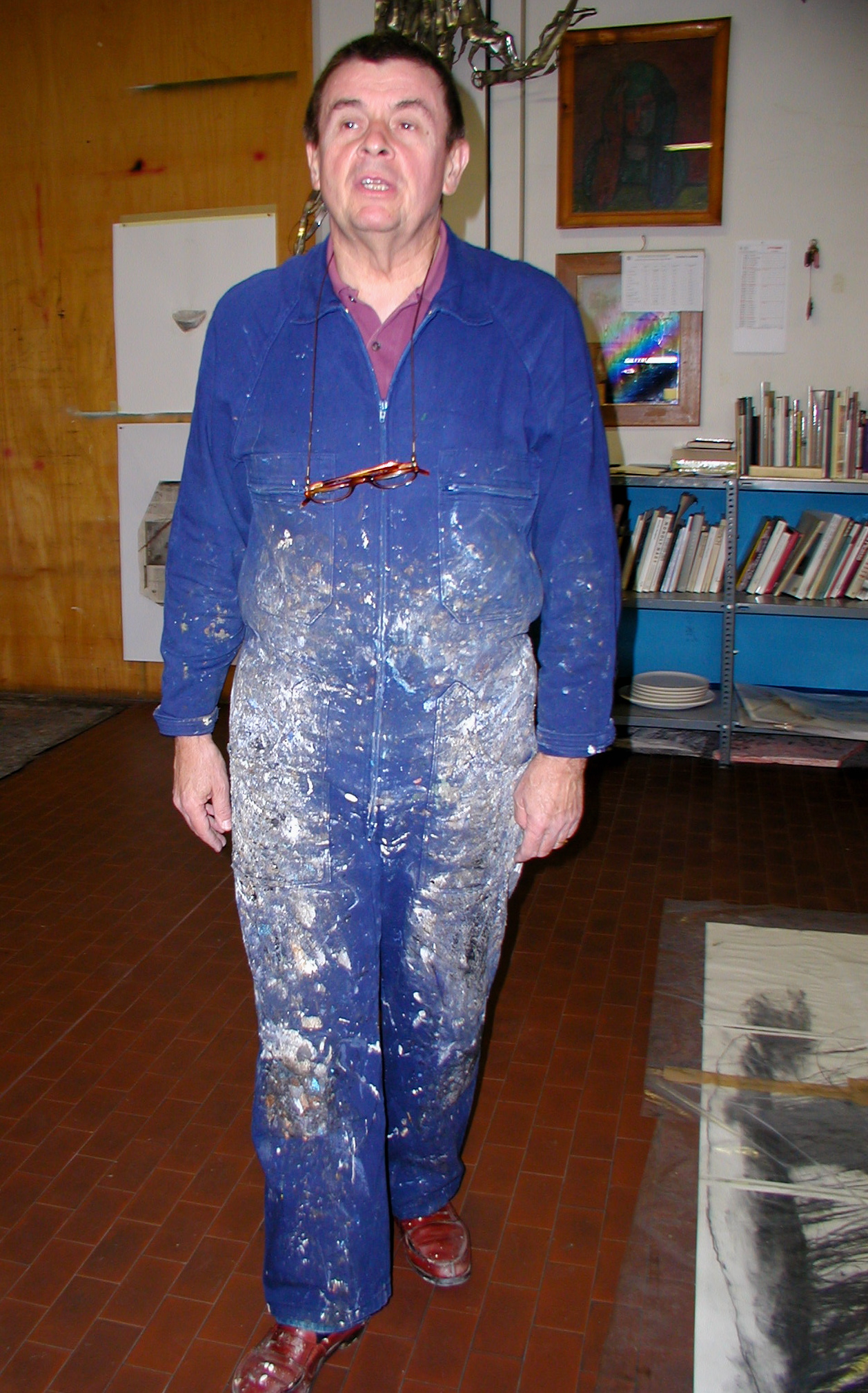 Giuliano Collina